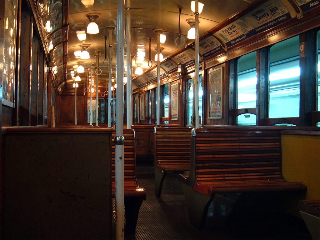 Metro line A in Buenos Aires, the first in Latin America and still in operation.